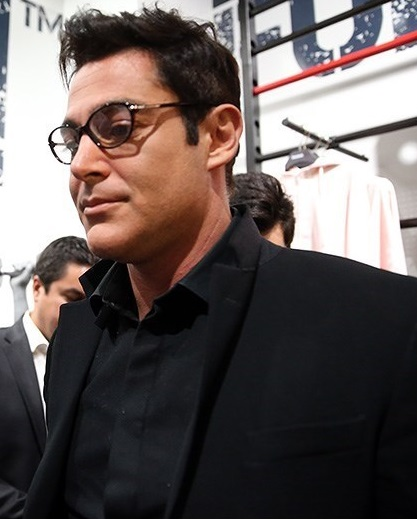 Mohammad Reza Golzar in opening of Ali Daei store in Tehran